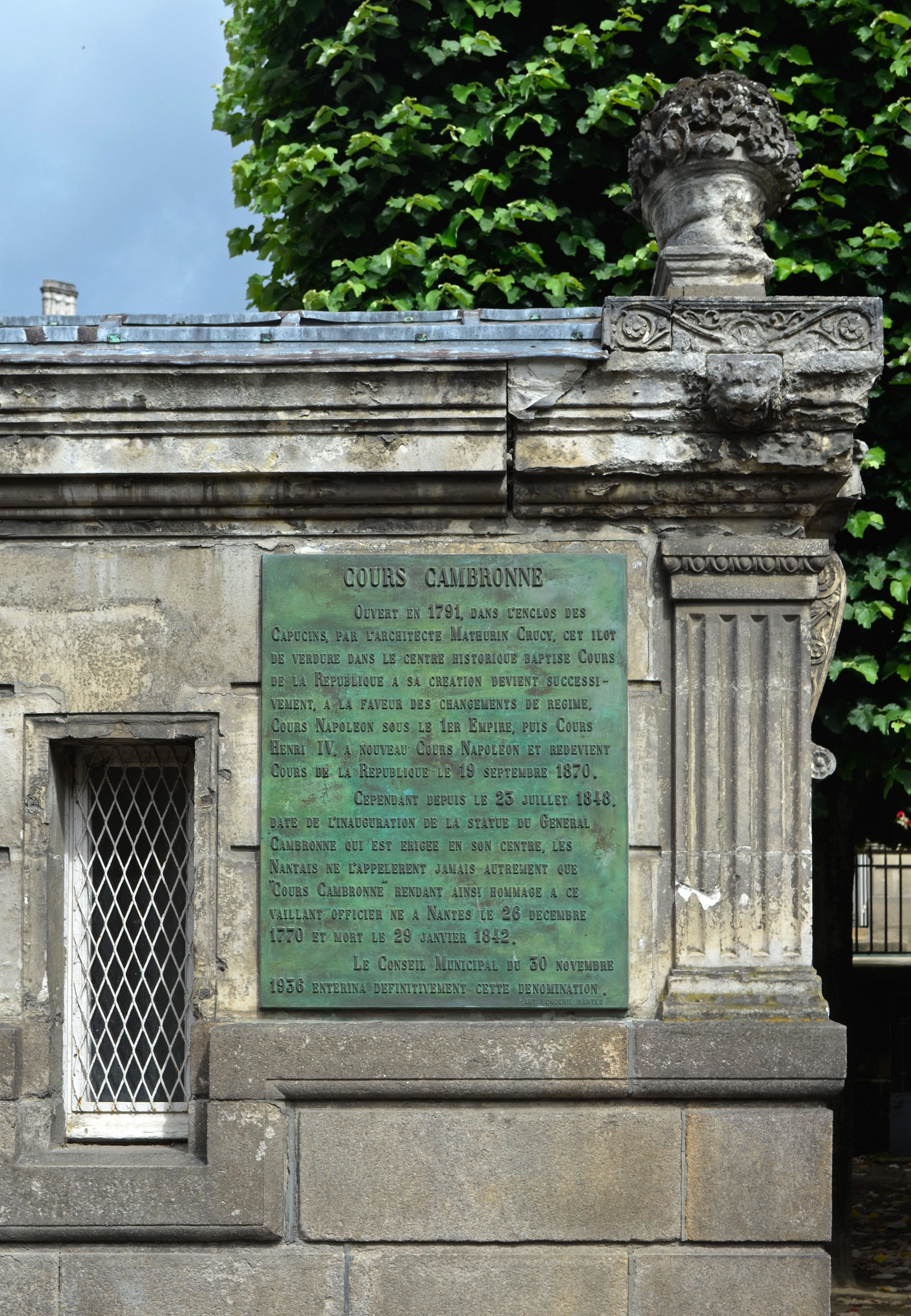 Cours Cambronne's plaque - Nantes, France